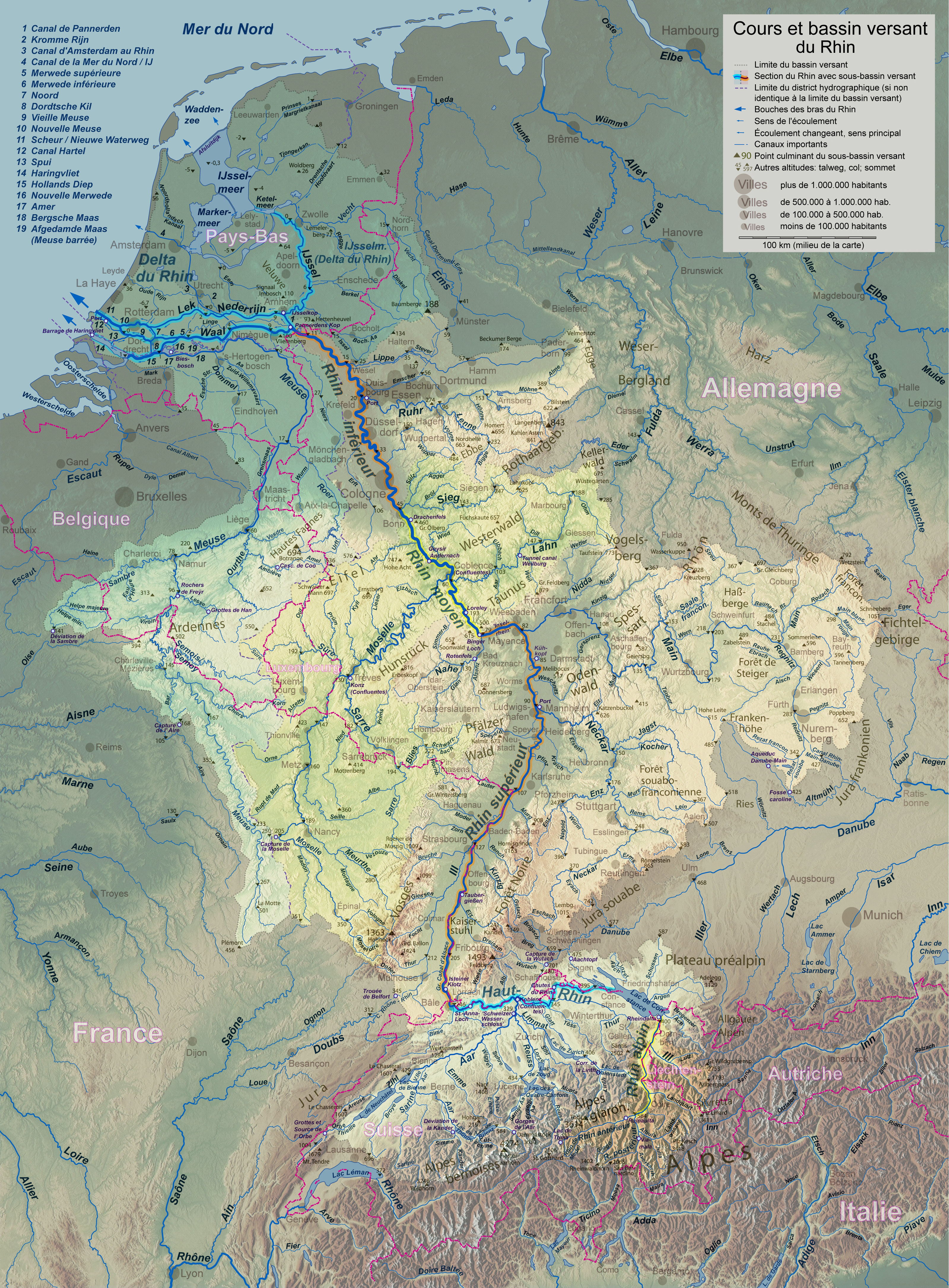 Rhine course and river system, place names in French